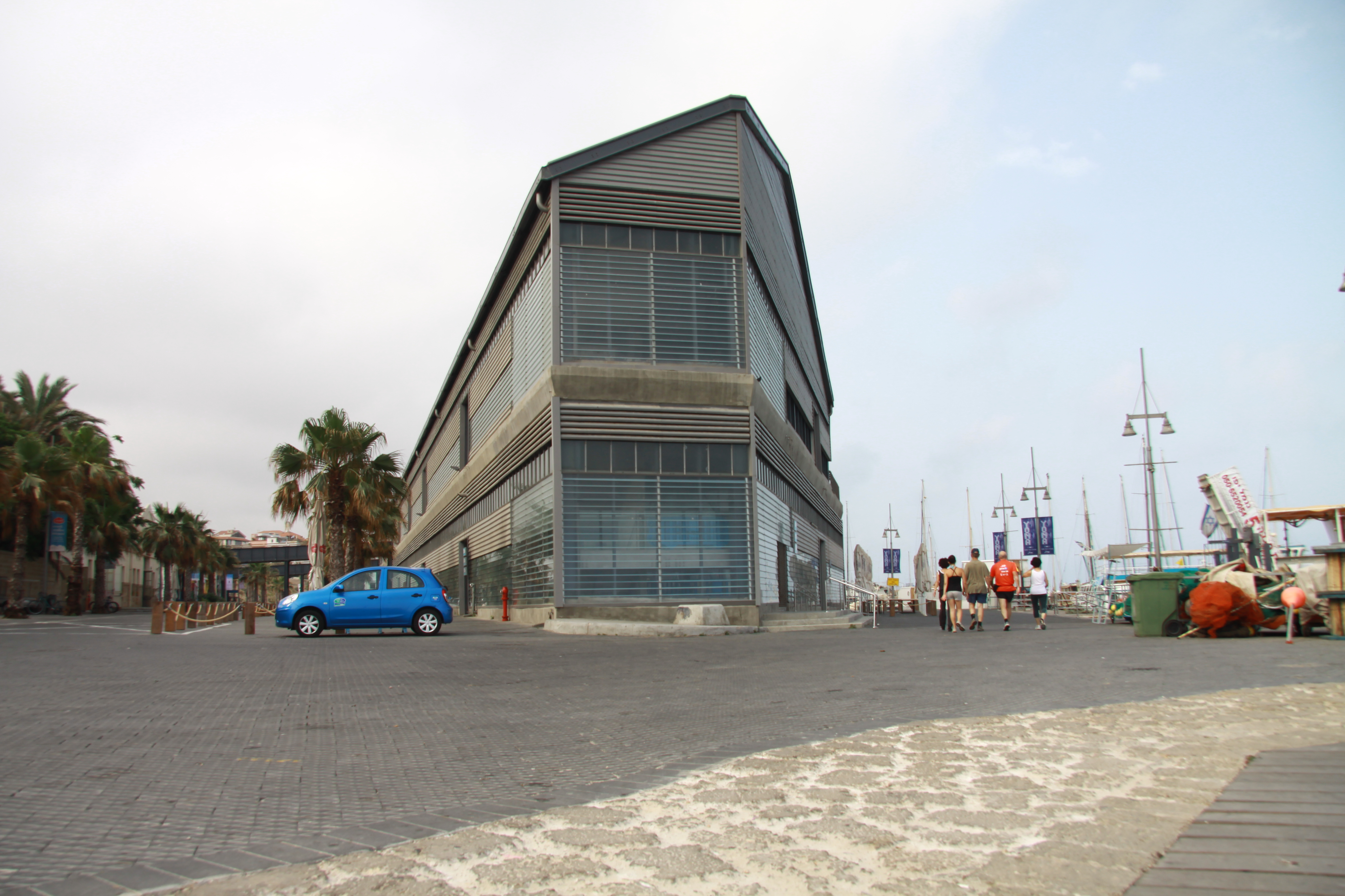 Port of Jaffa - the stone pavement indicates the location of the sea wall